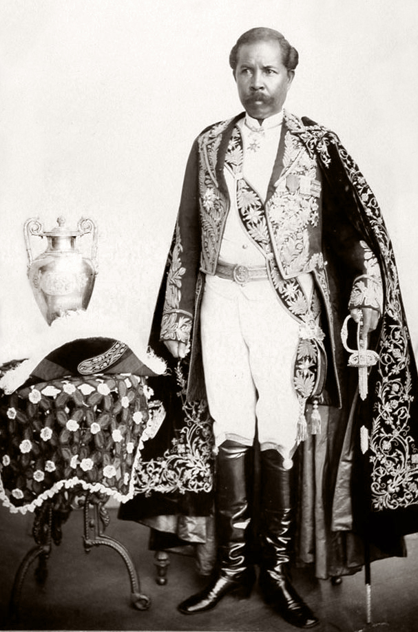 Official studio portrait of Rainilaiarivony, Prime Minister and Commander in Chief. Commercially produced print.; Part of set of mounted prints, mostly commercially produced, collated by Rev William John Edmonds, stationed in Madagascar 1892-1898.